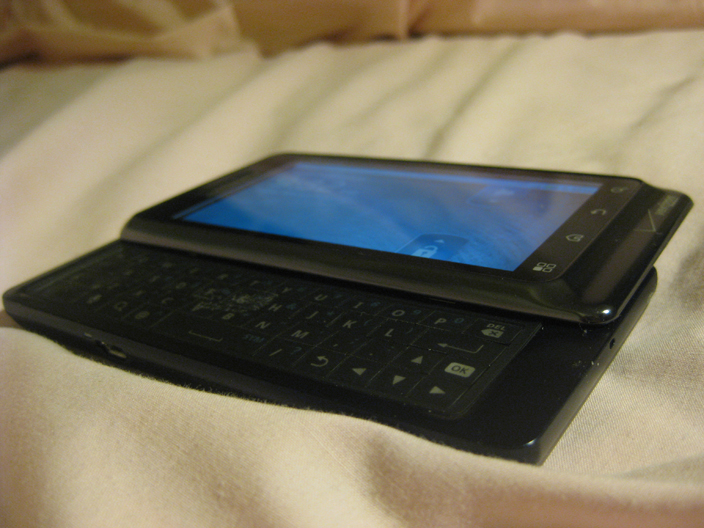 A Motorola Droid 2, with the slider keyboard open.